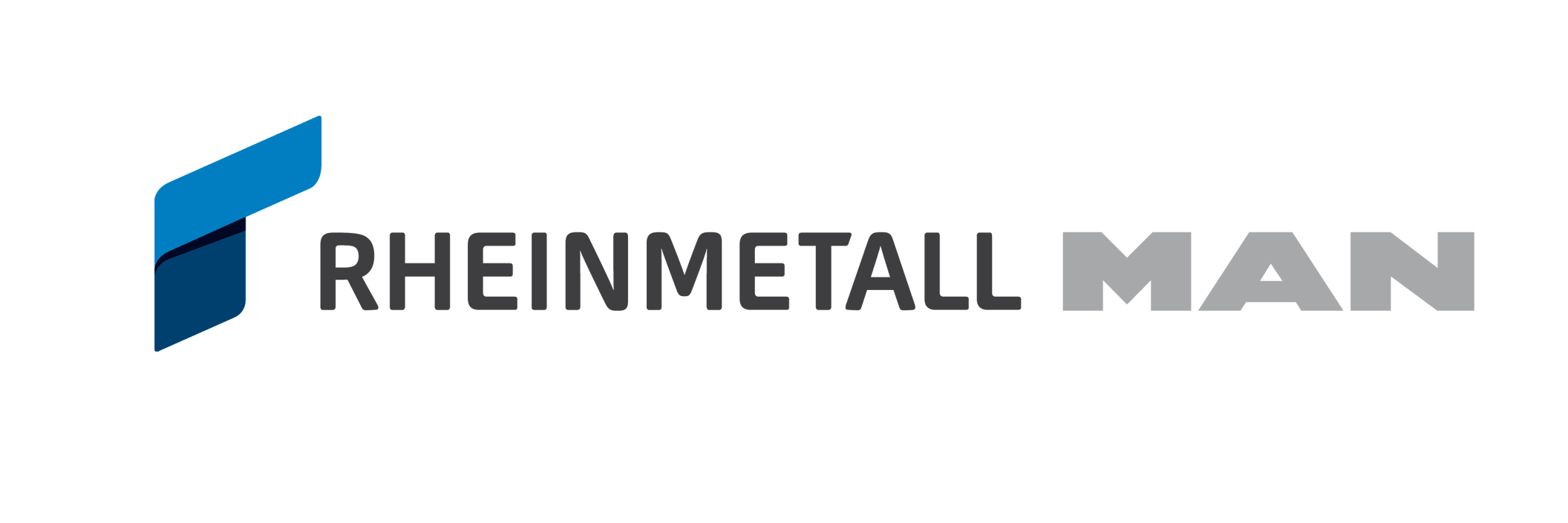 Rheinmetall MAN Logo